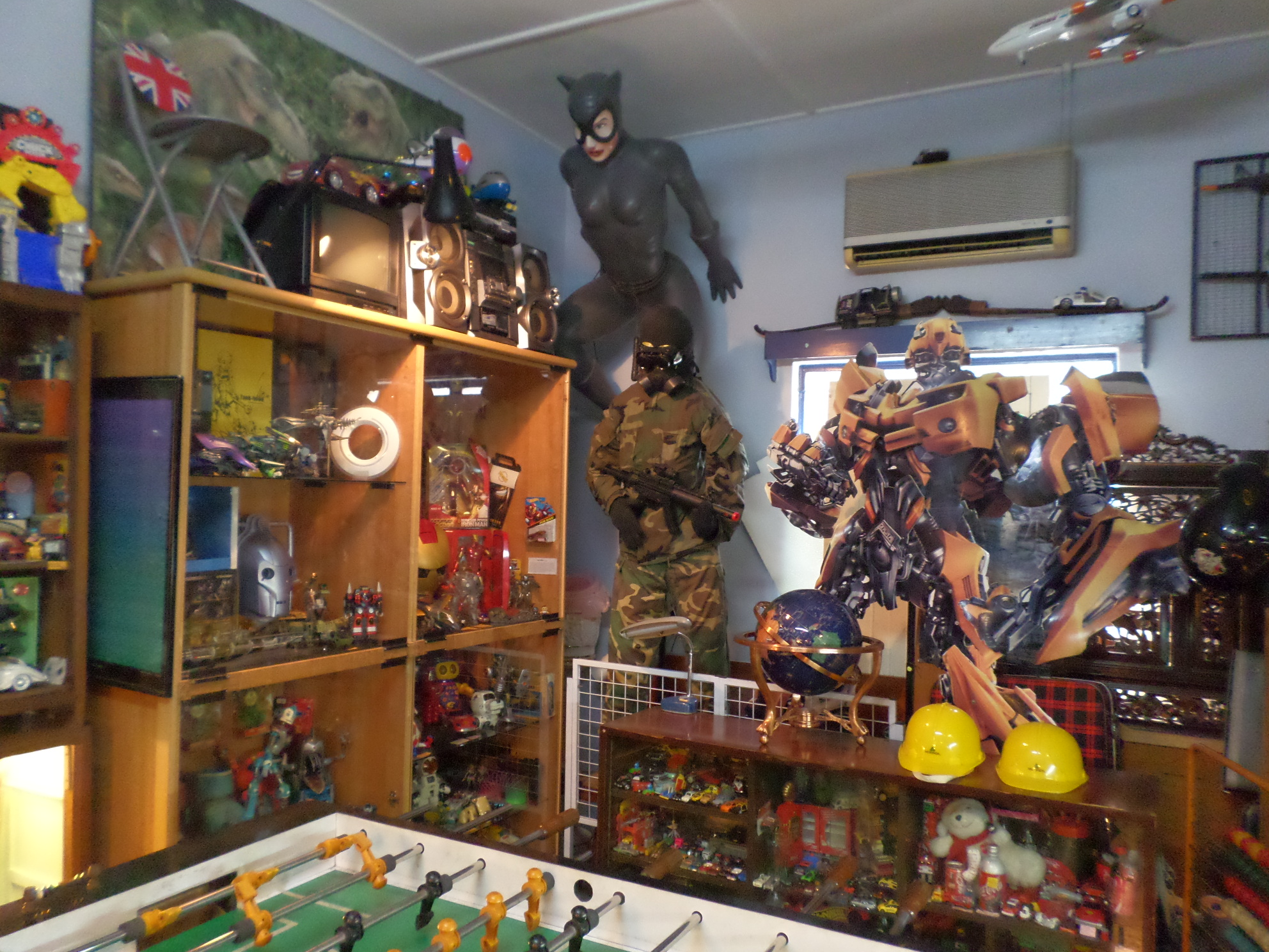 Toy Museum, Bukit Baru, Malacca, MalaysiaBahasa Melayu: Muzium Mainan, Bukit Baru, Melaka, Malaysia